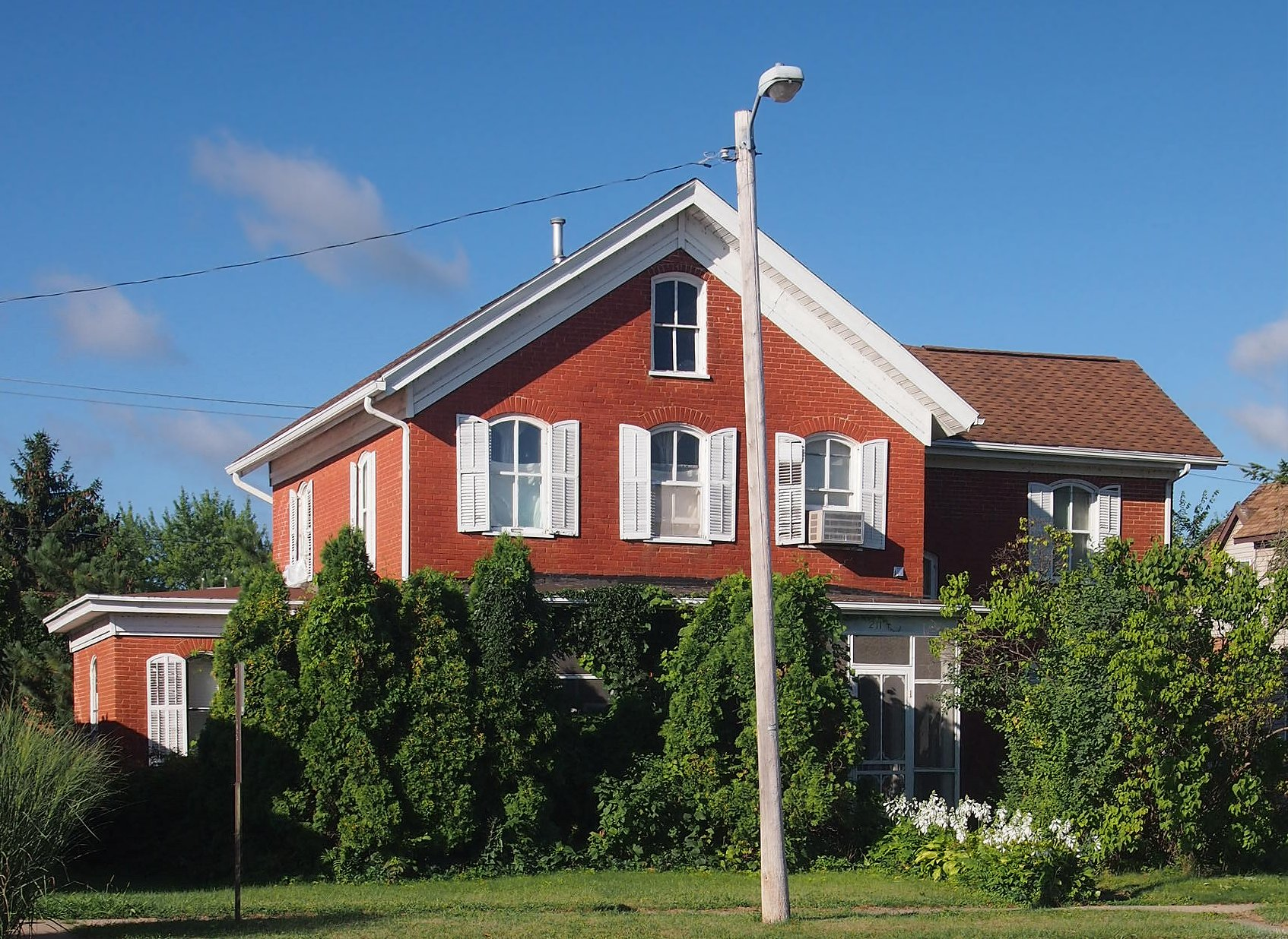 William H. & Alma Downer Campbell House, 211 W 2nd St, Wabasha, Minnesota, USA. Viewed from the northeast.